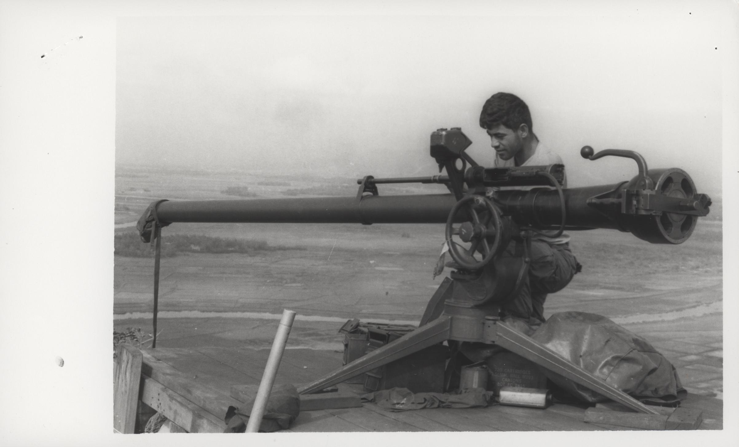 "Valley Protector: Corporal Robert Sepulveda, 20 (Florence, Arizona), carefully cleans his 106mm recoilless rifle atop Marble Mountain (official USMC photo by Sergeant Bob Leak)." From the Jonathan Abel Collection (COLL/3611), Marine Corps Archives & Special Collections. OFFICIAL USMC PHOTOGRAPH